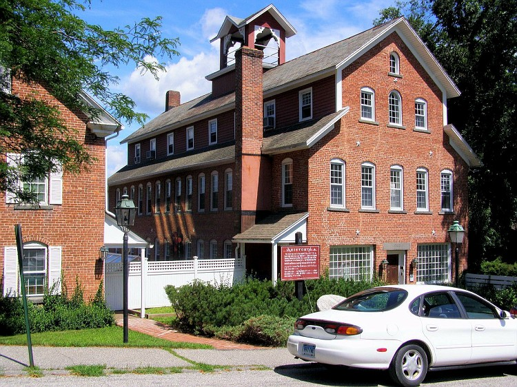 Former Holley Manufacturing Company premises, Lakeville (Salisbury), Connecticut.